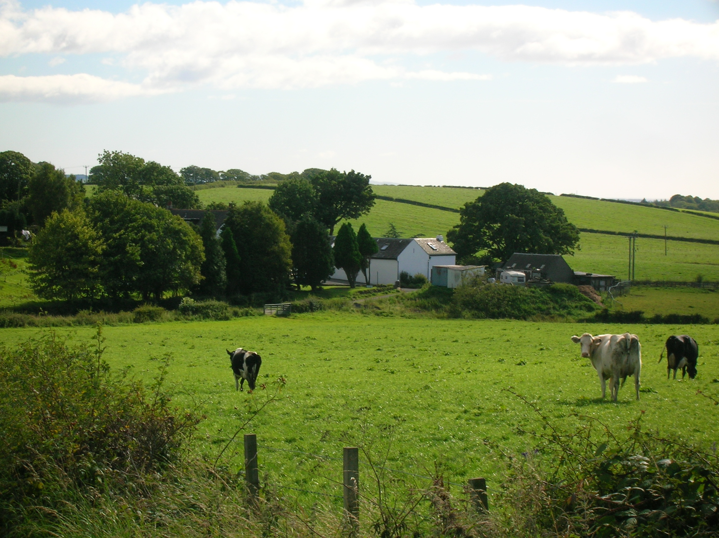 North Kilbride Farm, East Ayrshire, Scotland.